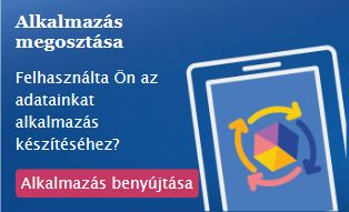 Screenshot from EUODP